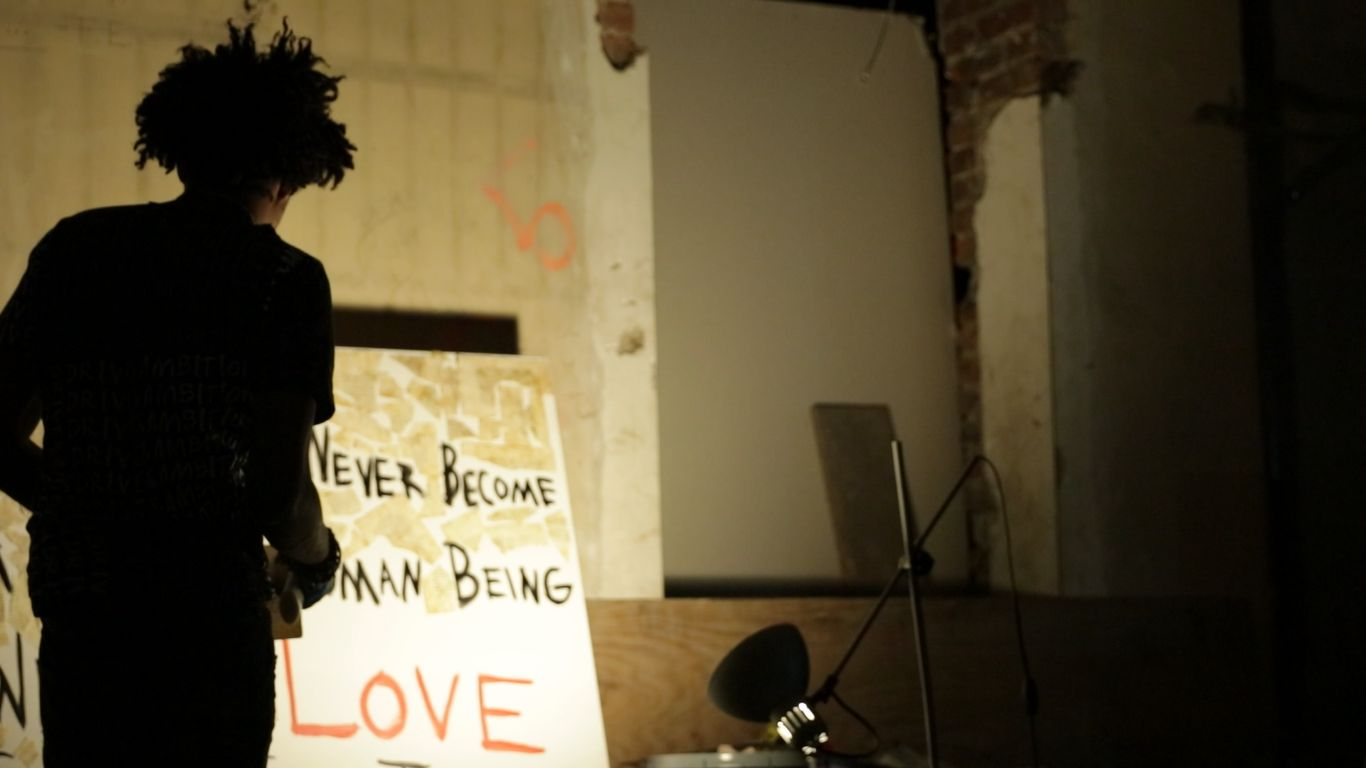 Genesis inside his studio, creating the fine art poem "Love Something" that he eventually sold during his "Through the Grey" exhibition Dec. 1st 2016.